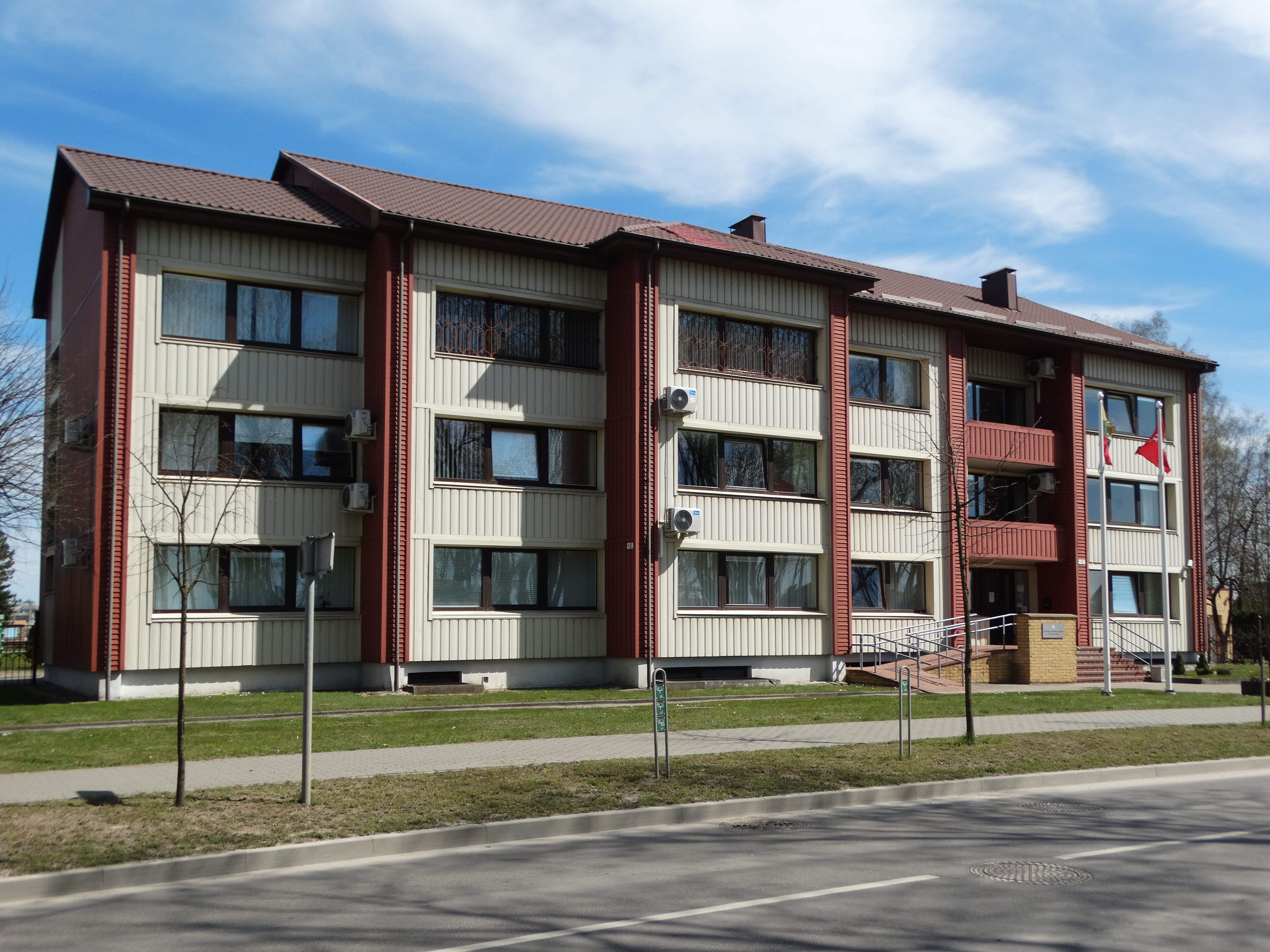 Court, Tauragė, Lithuania